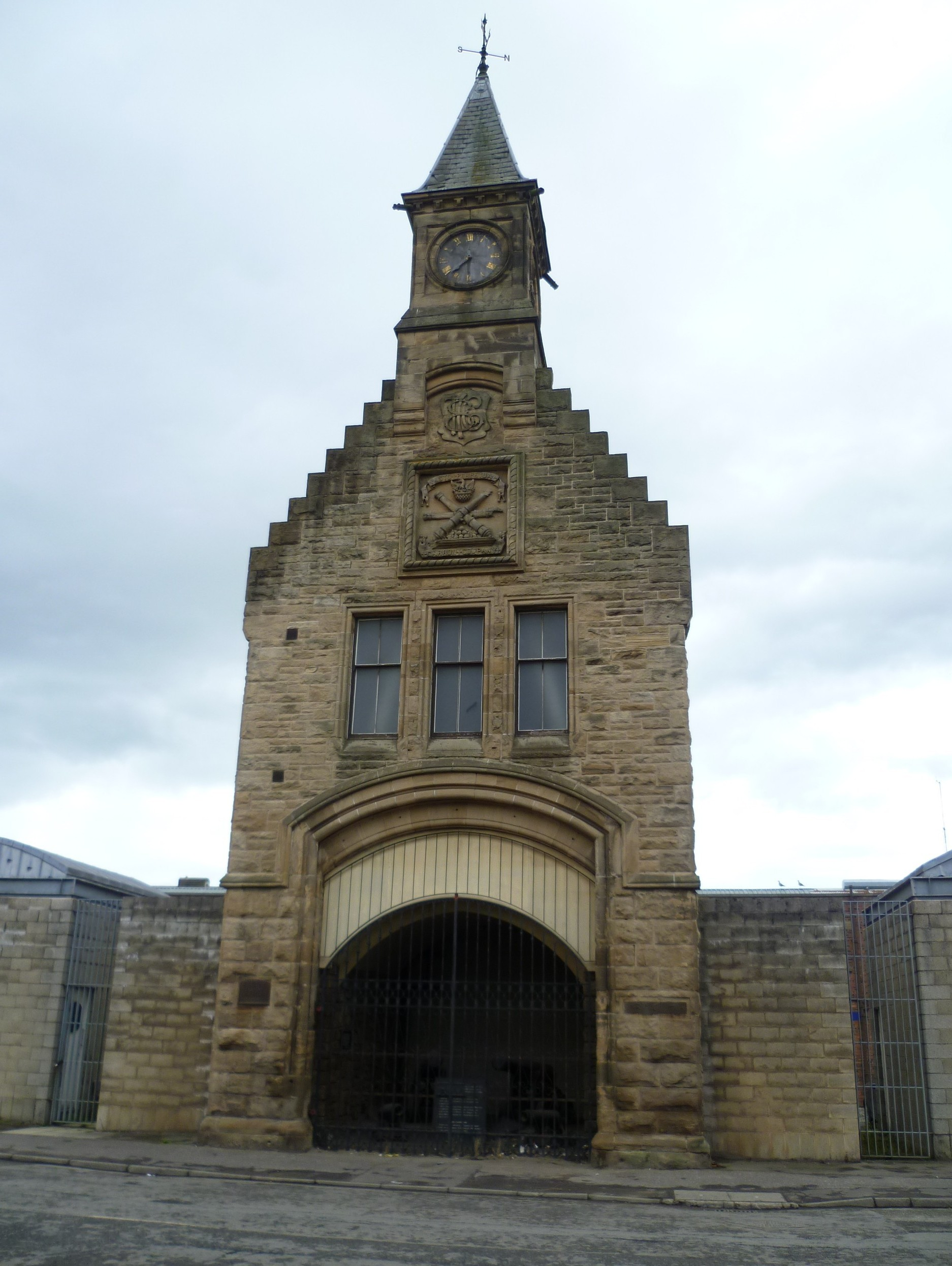 Clocktower entrance to the former Carron Works, near Falkirk